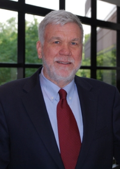 Mike Healy - Michael D. Healy (born June 13, 1926, in Chicago) is a retired Major General in the United States Army who spent 35 years serving in the military, completing combat tours in Korea and Vietnam.